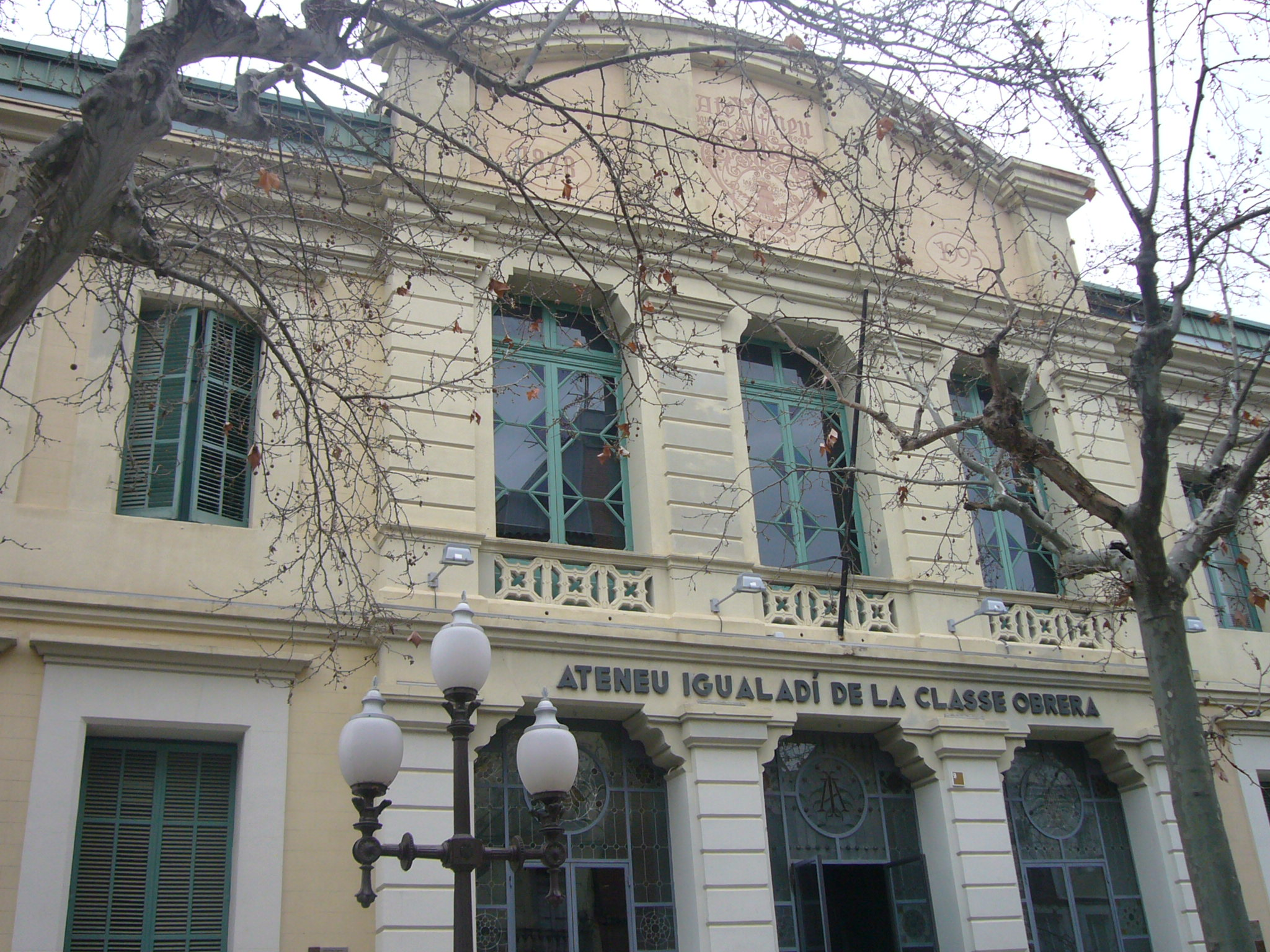 Ateneu Igualadí de la Classe Obrera, Igualada, Catalonia. Built by Pau Riera i Galtés